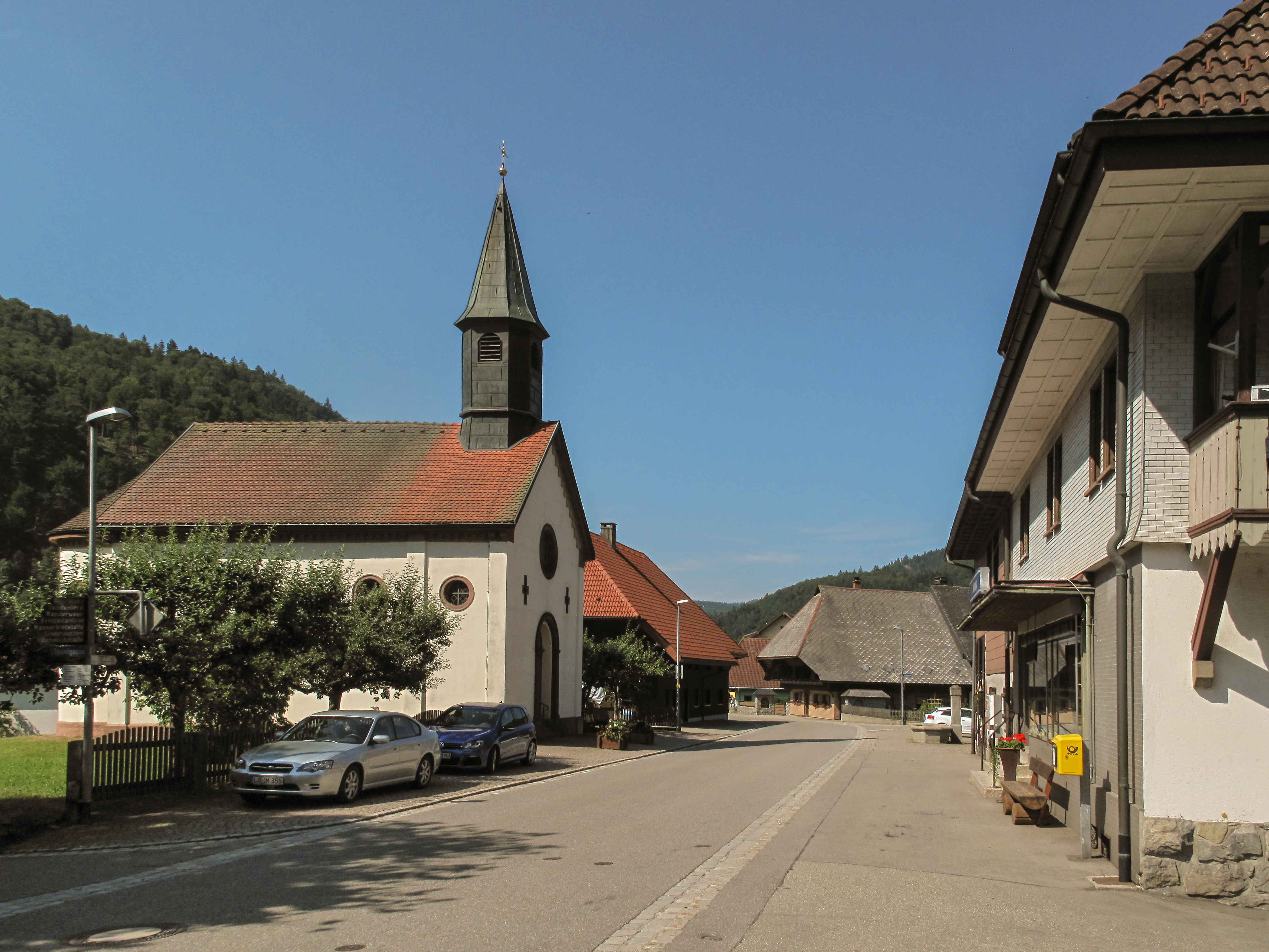 Utzenfeld, chapel: die Sankt Apollonia Kapelle